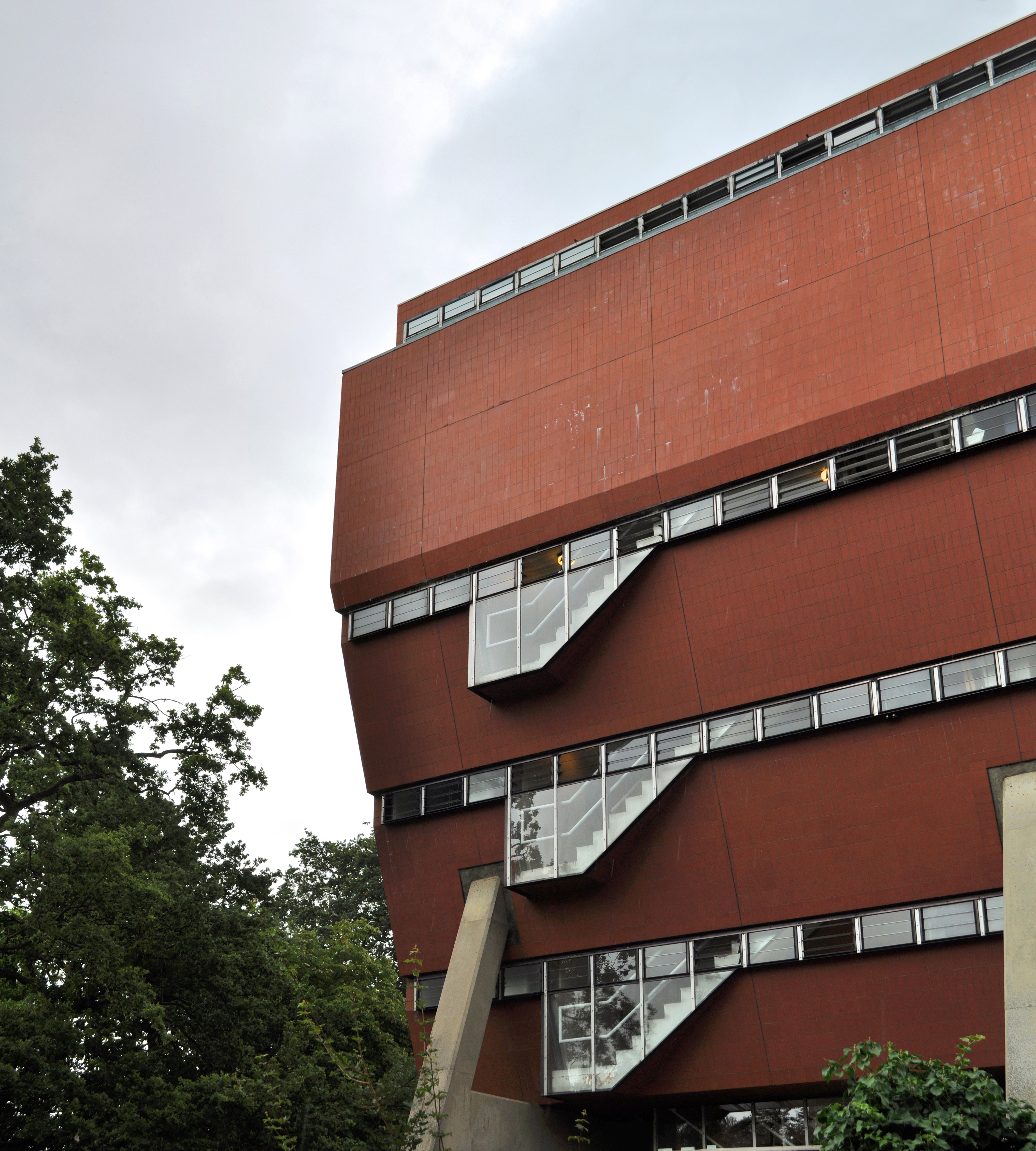 florey building, oxford, england 1966-1971 architect: james stirling, 1926-1992. let's continue what appears to have been a tour of dysfunctional, modern architecture :) I don't think I have ever read a single account of this house that didn't go into how poorly it performs. still, it is a strangely attractive brain-shaped building. this photo was uploaded with a CC license and may be used free of charge and in any way you see fit. if possible, please name photographer "SEIER+SEIER". if not, don't. the stirling set so far.